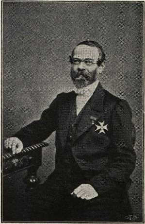 Otto Modig (1803-1877), Swedish engineer and civil servant